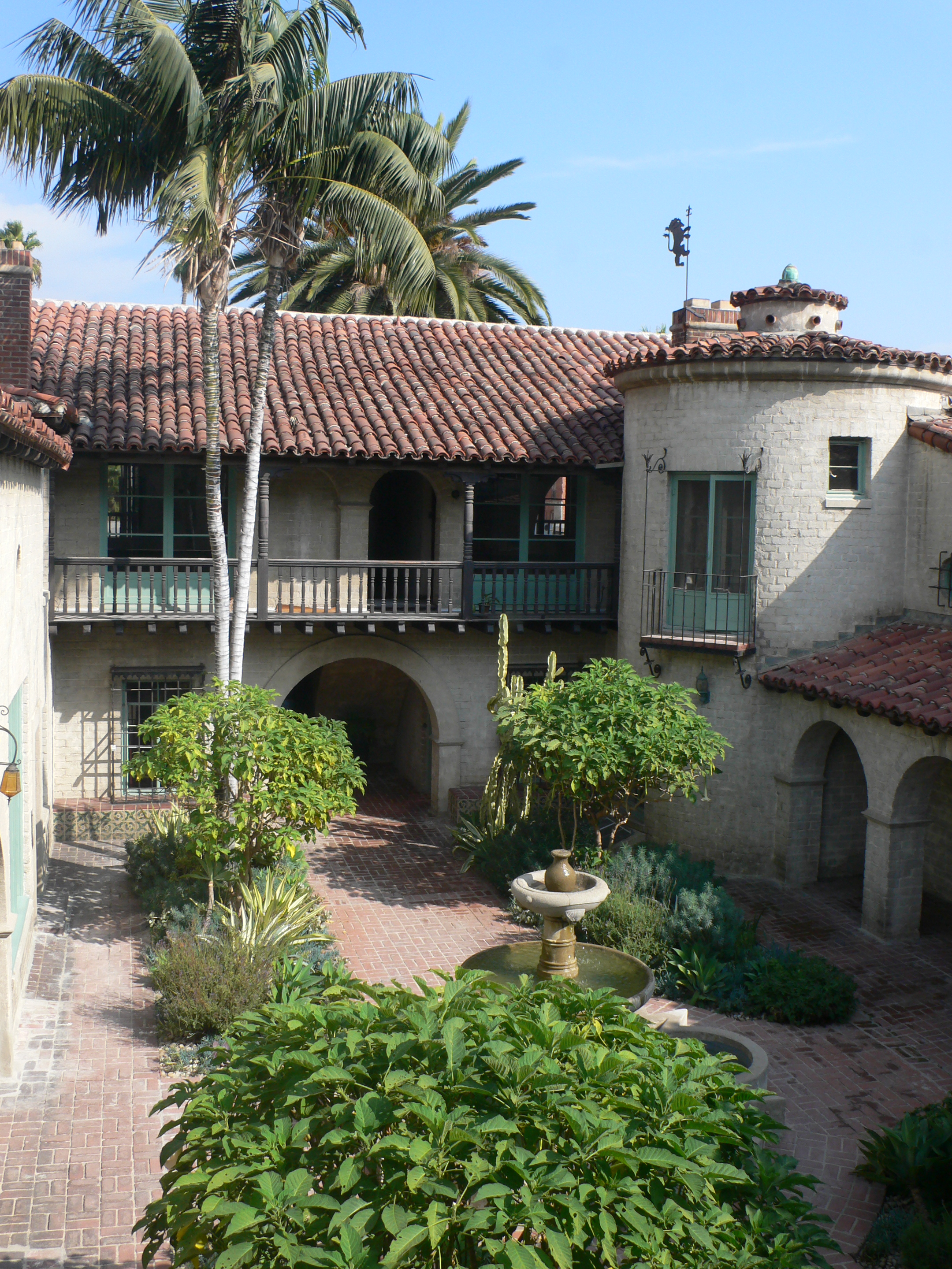 El Cabrillo Courtyard 2006